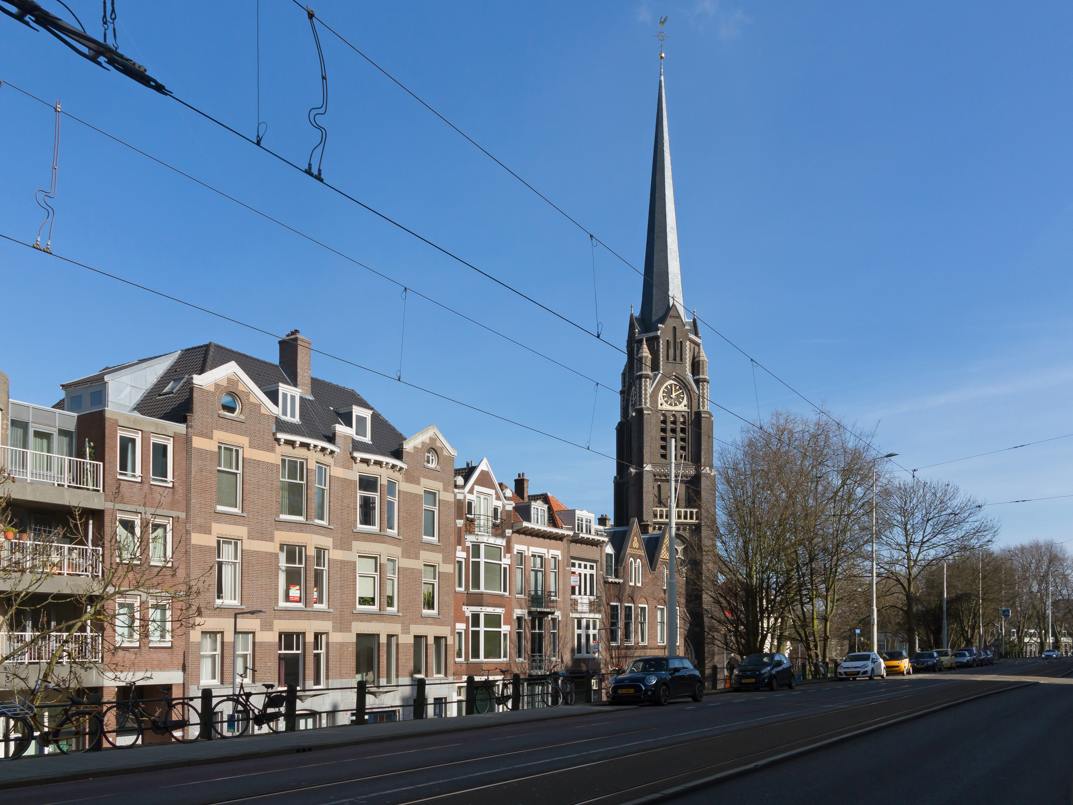 Rotterdam-Kralingen, church: de Sint-Lambertuskerk